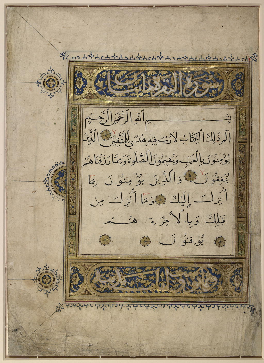 The verses 1-4 of the second chapter of the Qur'an entitled al-Baqarah (The Cow). The text is written in the cursive script called naskh, and each verse is separated by an ayah marker consisting of a gold six-petalled rosette with blue and red dots on its perimeter. Both the script and the illumination are typical of Qur'ans produced in Mamluk Egypt during the 14th and 15th centuries. Recitation markers signaling where not to stop recitation ("la" or "no stopping") are marked in red above the first two verse markers.